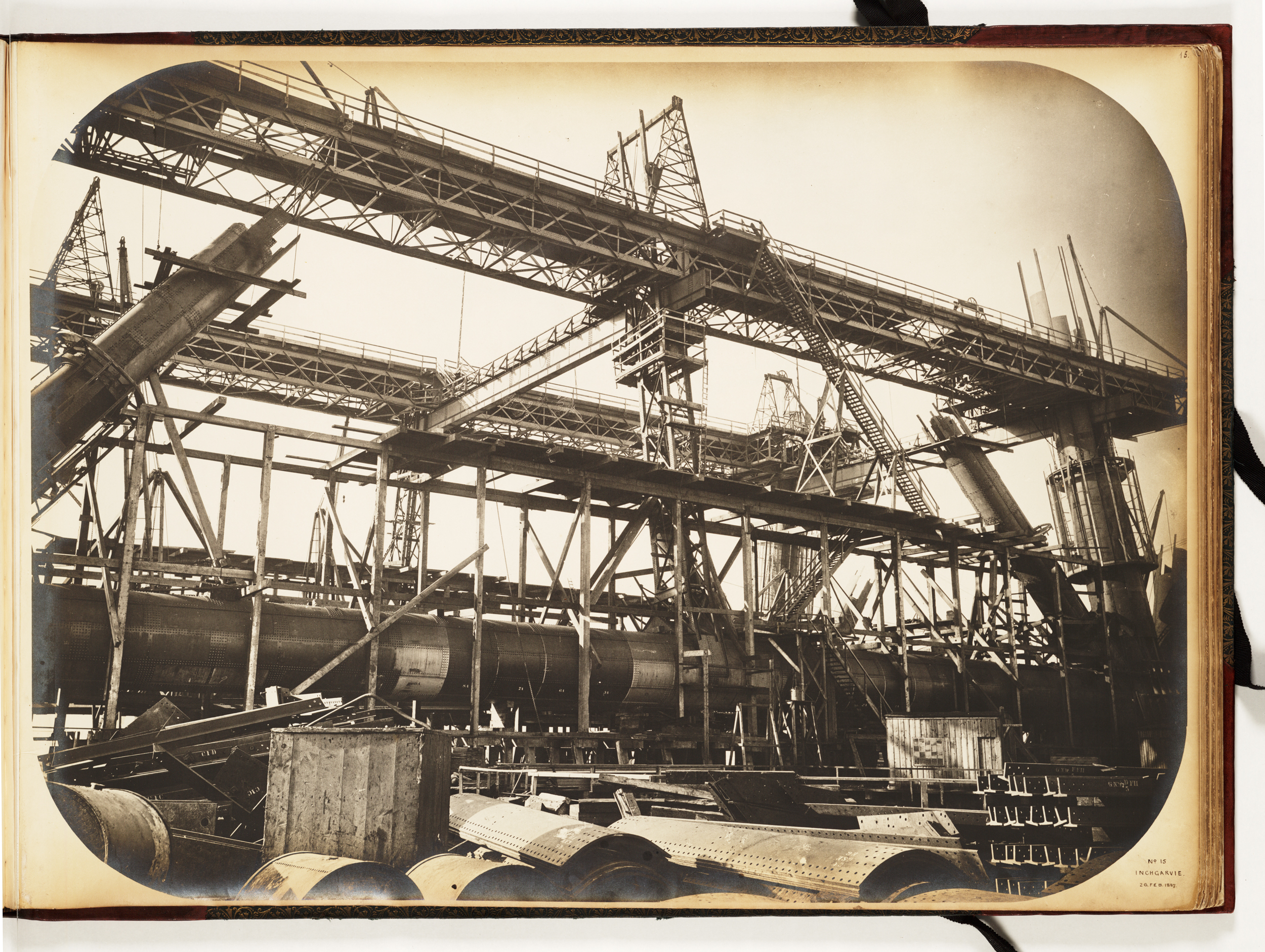 Photograph of the Inchgarvie cantilever as seen from the landing stage. Explanatory descriptions of the work at this point are rendered almost impossible, by the fact that the views of Inchgarvie superstructure are mostly taken from the same and only locality. It will be observed that, as compared with some of the former views, the whole aspect of the structure has changed, a more pleasing effect being the result. A noticeable feature in this picture, is the excessive length of the 12 feet tube, connecting N and S piers, as compared with the corresponding ones on the Queensferry and Fife sides. This great length obviously necessitated additional support, which was duly provided by the lattice-work tie midway between the vertical columns. The platforms were put together as shown in former pictures, and the lifting operations conducted in a manner similar to that employed at the other two piers, with, however additional jacks and cross-girders in conjunction with vertical tie. The steel plates used in the lower portion of this cantilever are the heaviest throughout the structure. To support the diagonal struts during erection was a difficulty arising from the excessive longitudinal dimensions of this pier, their angle being in this case considerably increased, and was met by carrying up the verticals, and finishing the struts independently of same, later on, by means of steel ropes and cranes worked from the platforms above. Transcription from: Philip Phillips, 'The Forth Railway Bridge', Edinburgh, 1890.